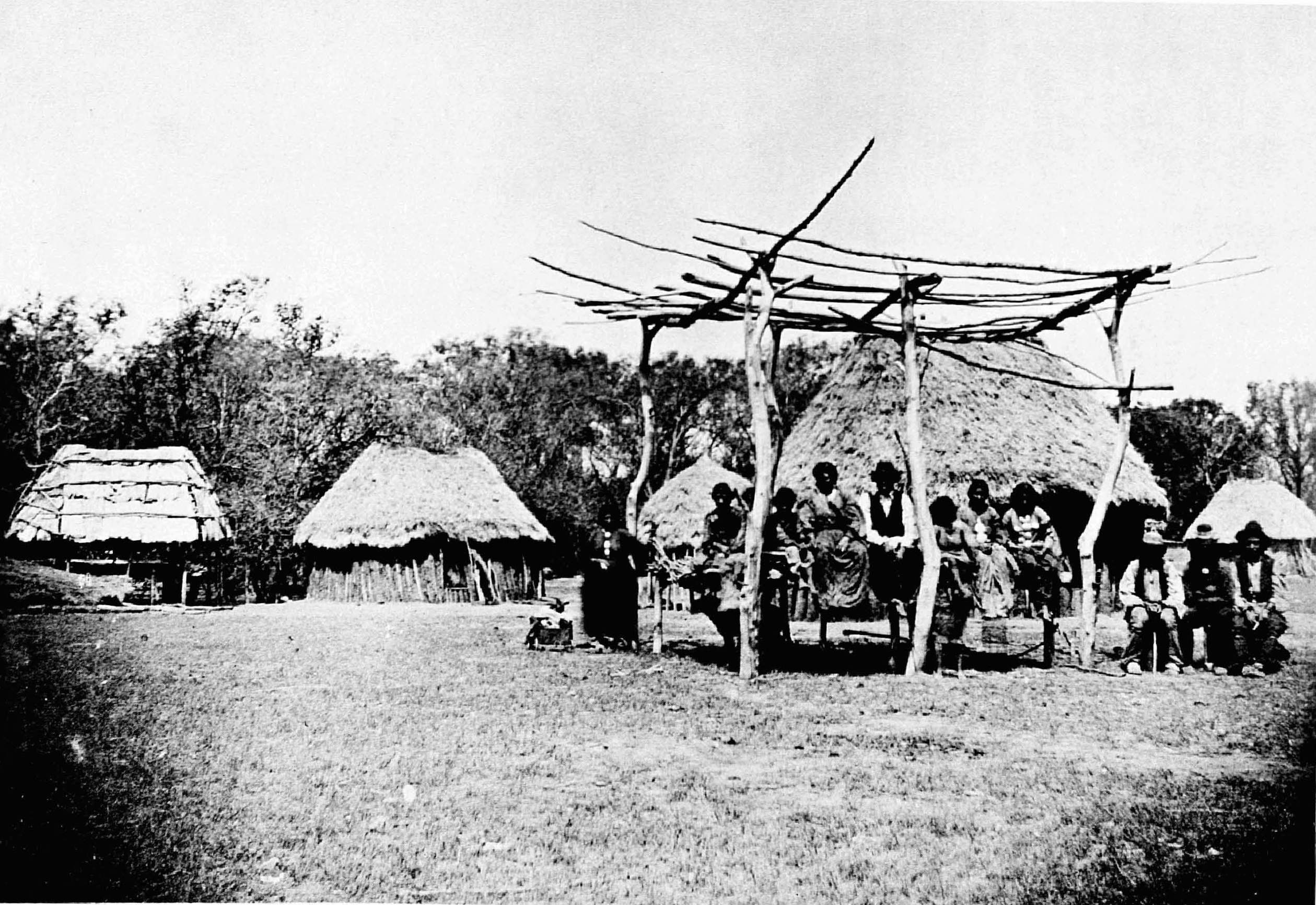 Caddo village, photograph was taken near Anadarko.[1]